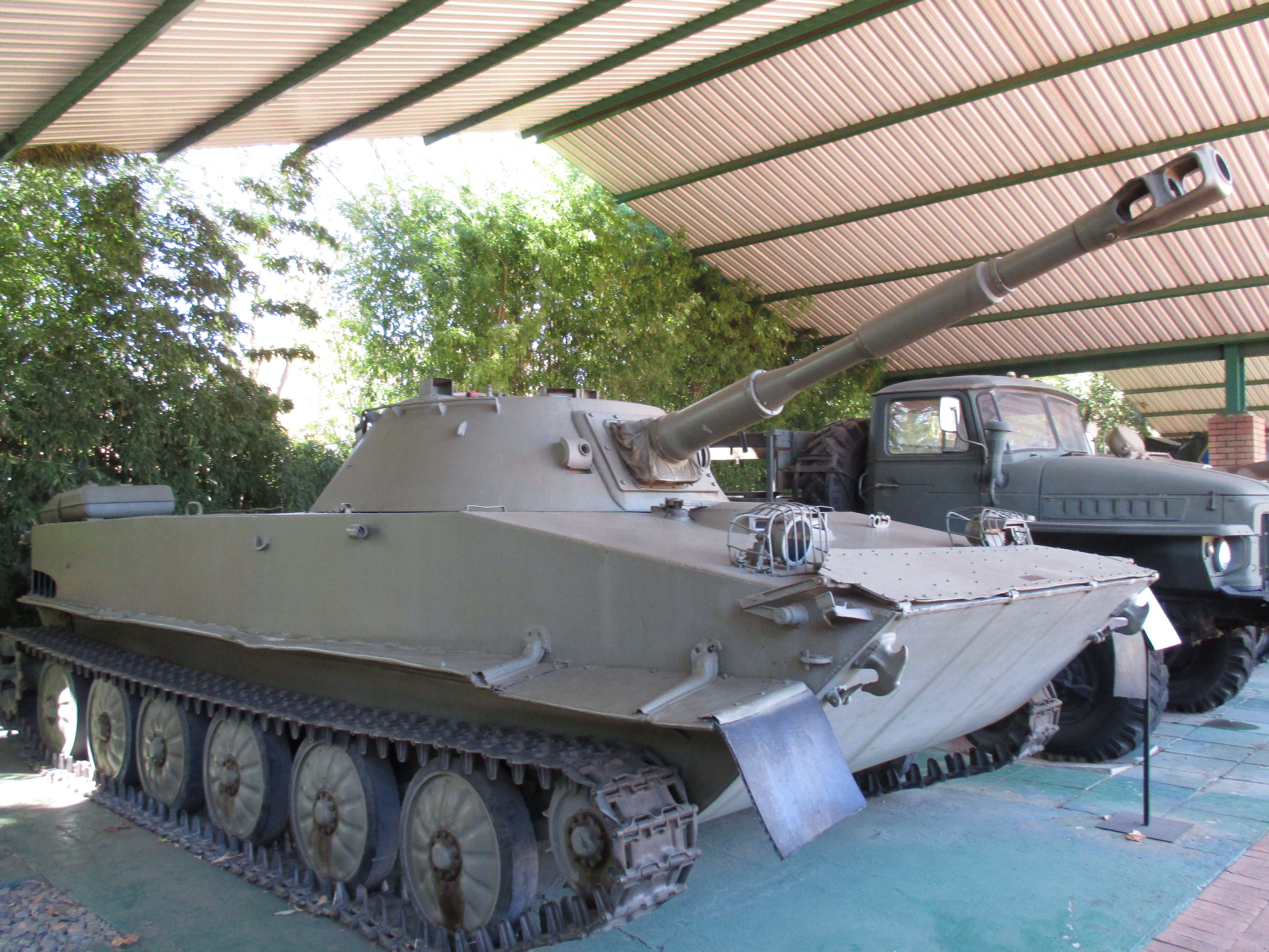 Description: PT-76 late of the Armed Forces for the Liberation of Angola (FAPLA) at the South African National Museum of Military History, Johannesburg.